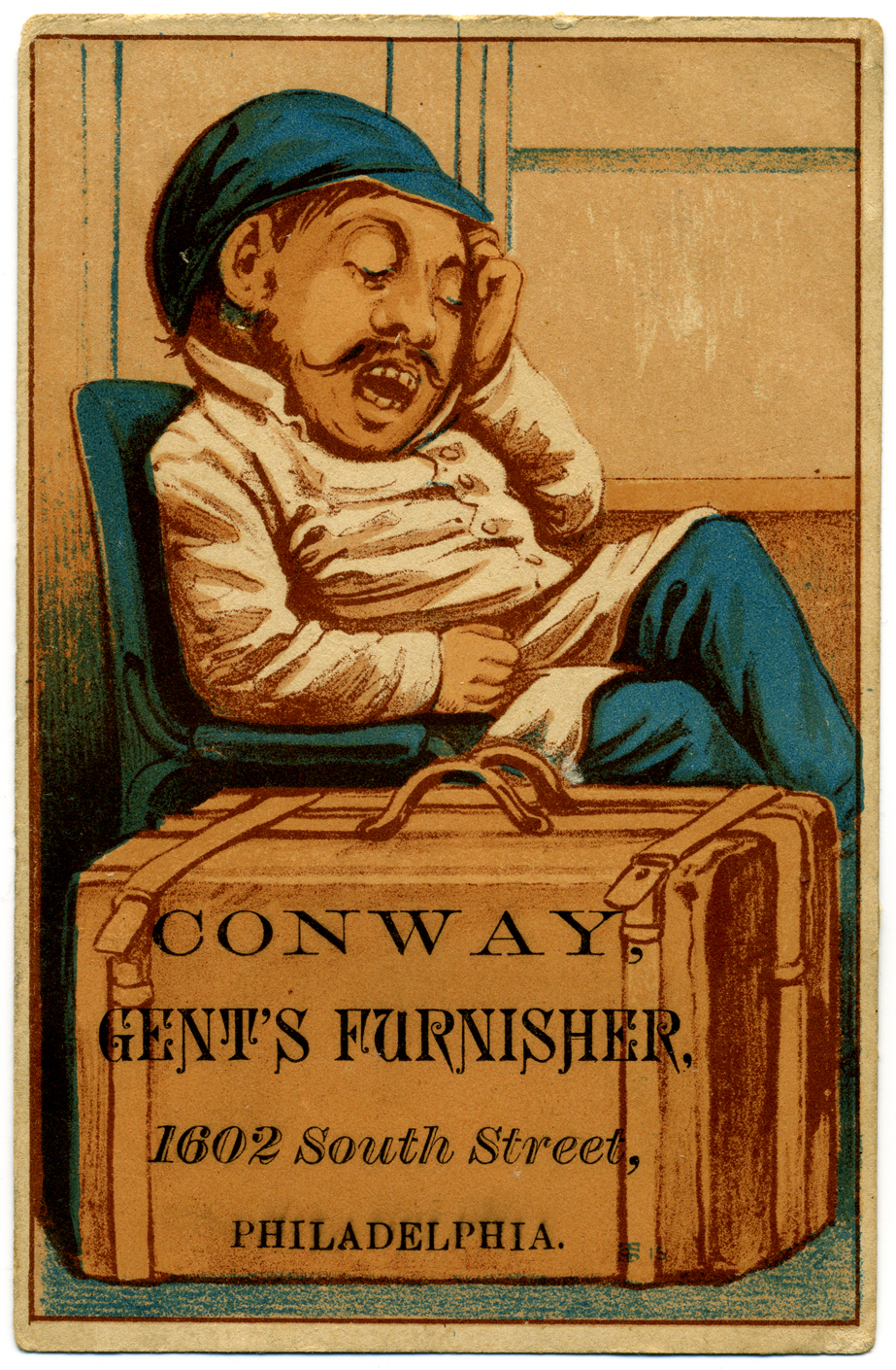 Advertisement card for Philip Conway, shirt maker, Philadelphia, PA.